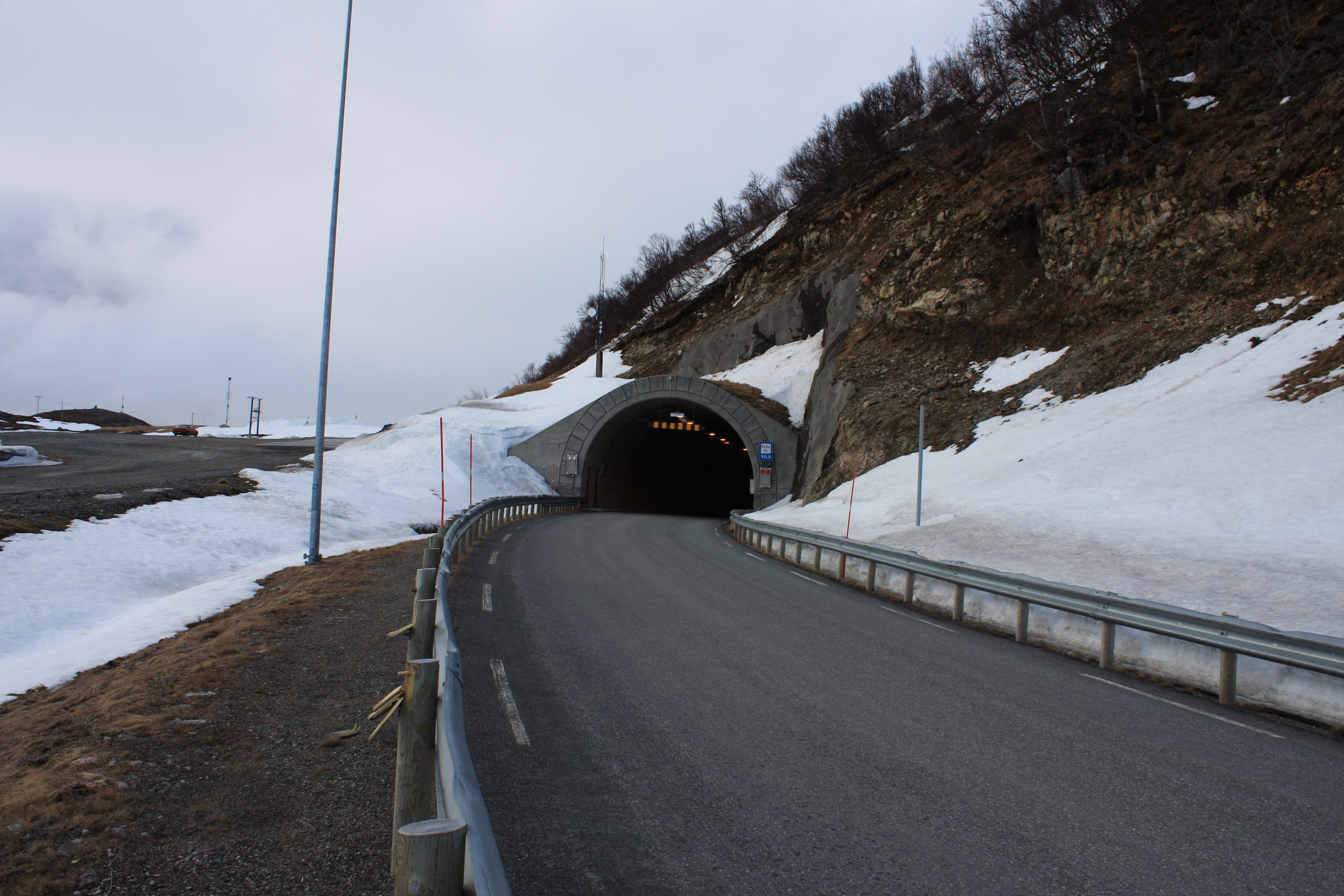 Sørskartunnelen - The Southeast Entrance